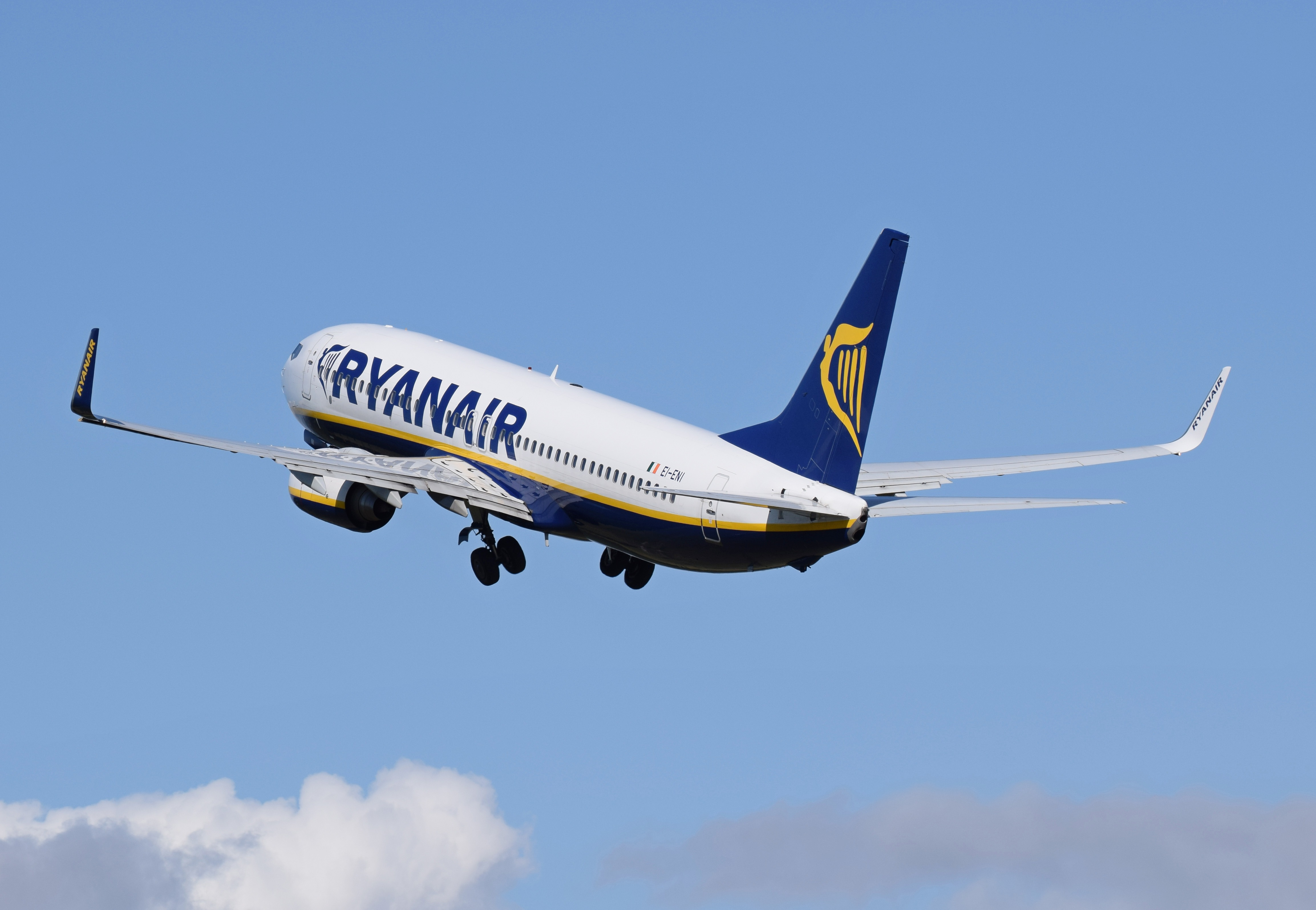 Boeing 737-800 (EI-ENI) of Ryanair departs Bristol Airport, England. This aircraft was delivered to Ryanair in January 2011. The undercarriages are still retracting.